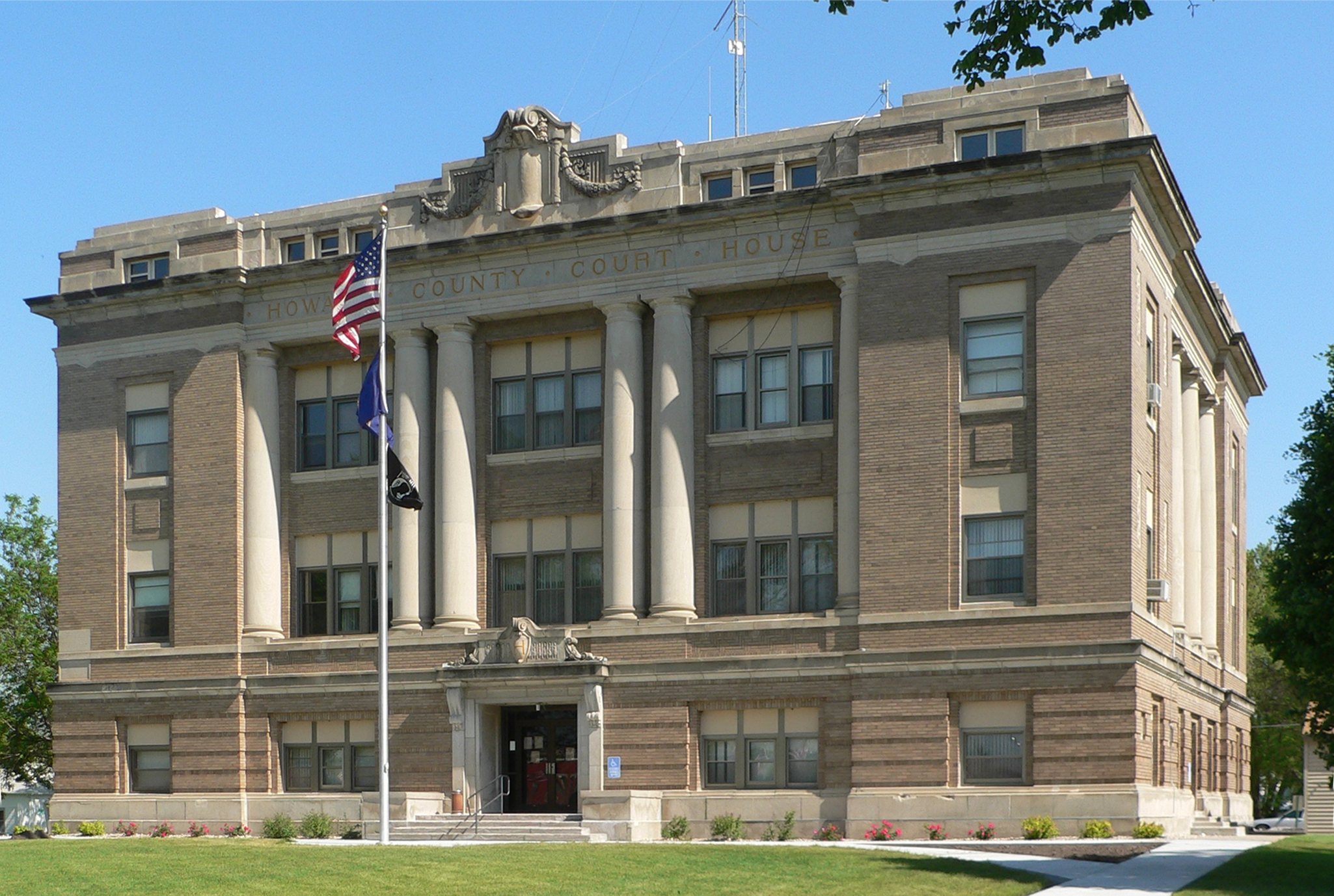 Howard County Courthouse in St. Paul, Nebraska; seen from the southeast. The building was designed in Classical Revival style by architects Berlinghof & Davis, and built in 1913. It is listed in the National Register of Historic Places.